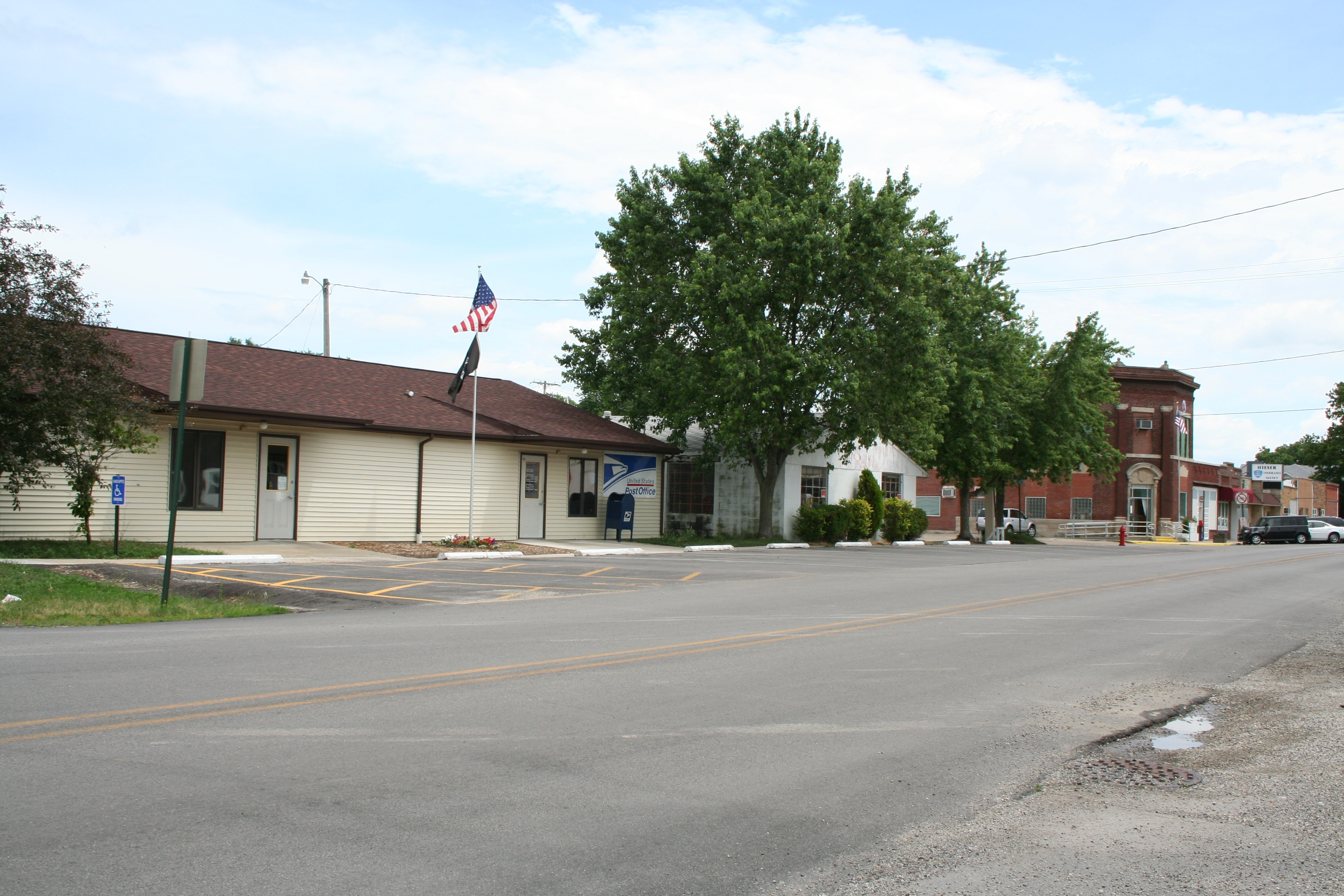 Fisher_Illinois_Post_office_and_downtown